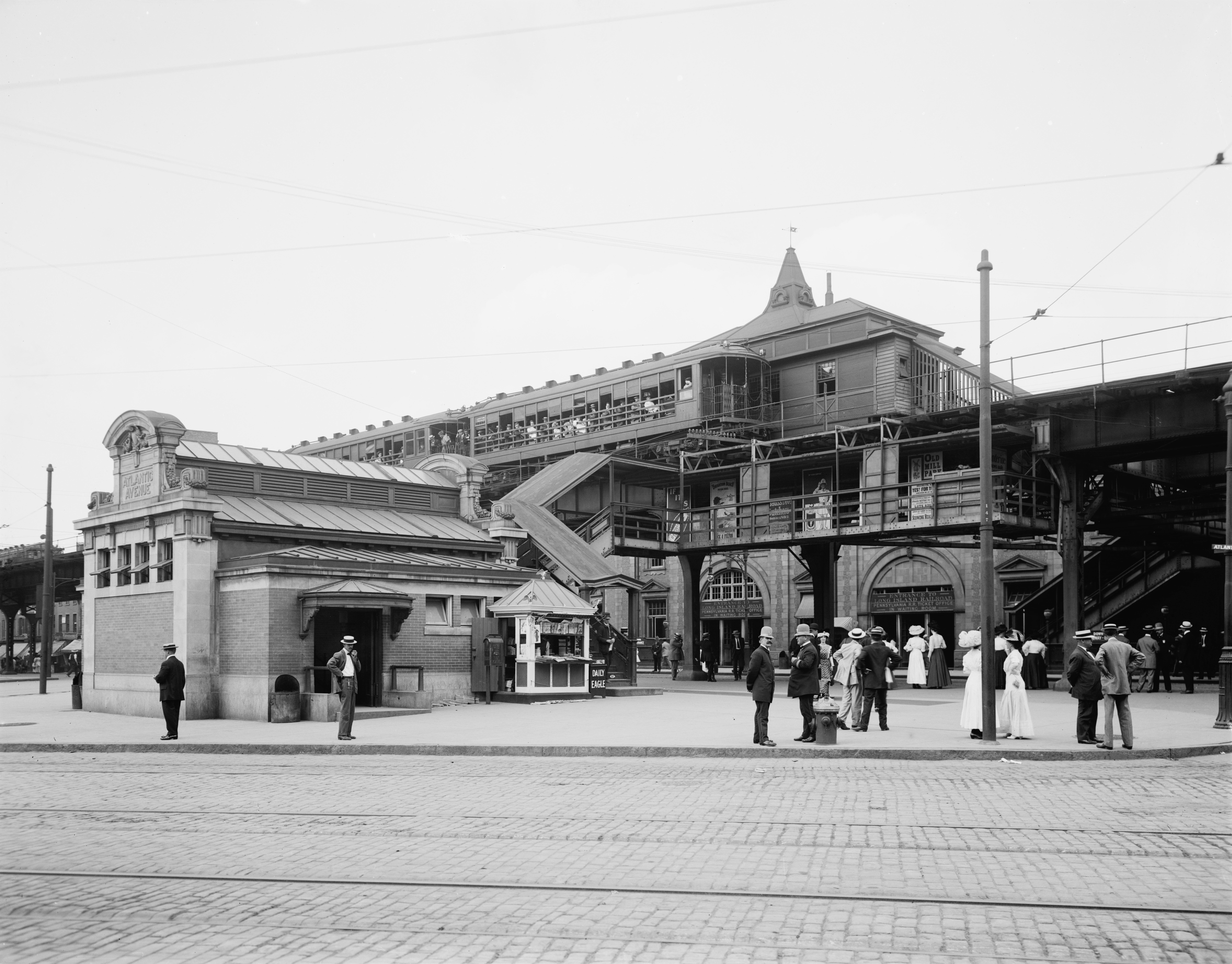 Atlantic Avenue station in Brooklyn after 1910. When the tunnels beneath the East River were completed by the IRT in 1908, the Brooklyn Els were in service already more than 20 years. At the corner of Atlantic, Fourth and Flatbush Avenues, today's IRT Eastern Parkway Line ended and saw a connection to the Long Island Railroad as well as to the elevated Fifth Avenue Line operated by the BRT. This line had two legs running down to Brooklyn harbor and to the Atlantic coast at Coney Island. The BRT is operating a couple of its famous convertible cars with removable side panels. The little building is the IRT subway entrance, reused a hundred years later as a skylight. The arched doors on the lower right belong to the Long Island Railroad Station.